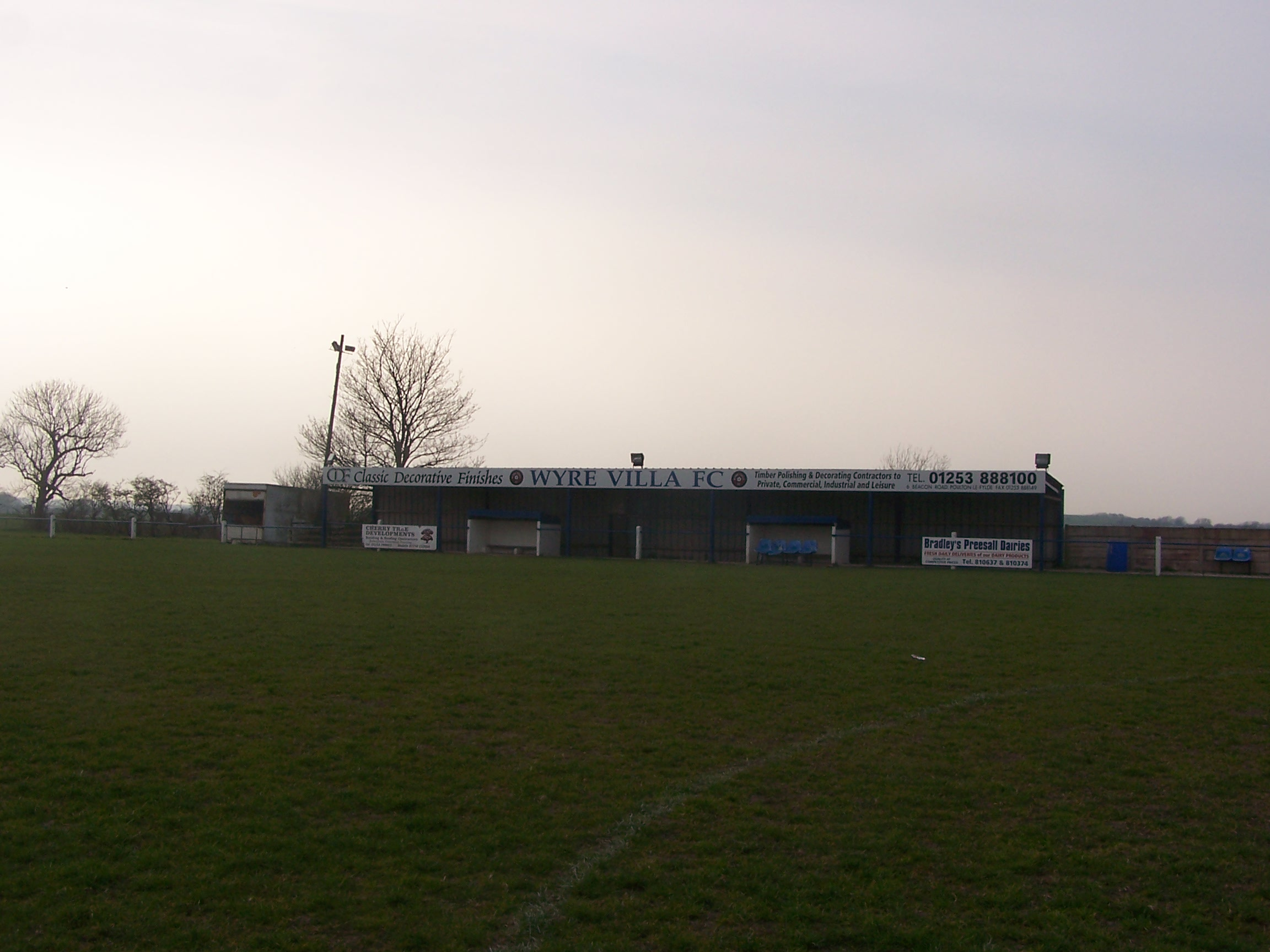 The tiny stand at the home of Wyre Villa F.C., Hallgate Park, Stalmine. Photo taken by ♦Tangerines BFC ♦·Talk 00:54, 13 April 2007 (UTC) on 13 April, 2007.